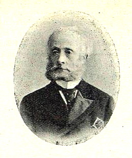 Ferdinand Ferdinandovich Wrangel (1844—1919)